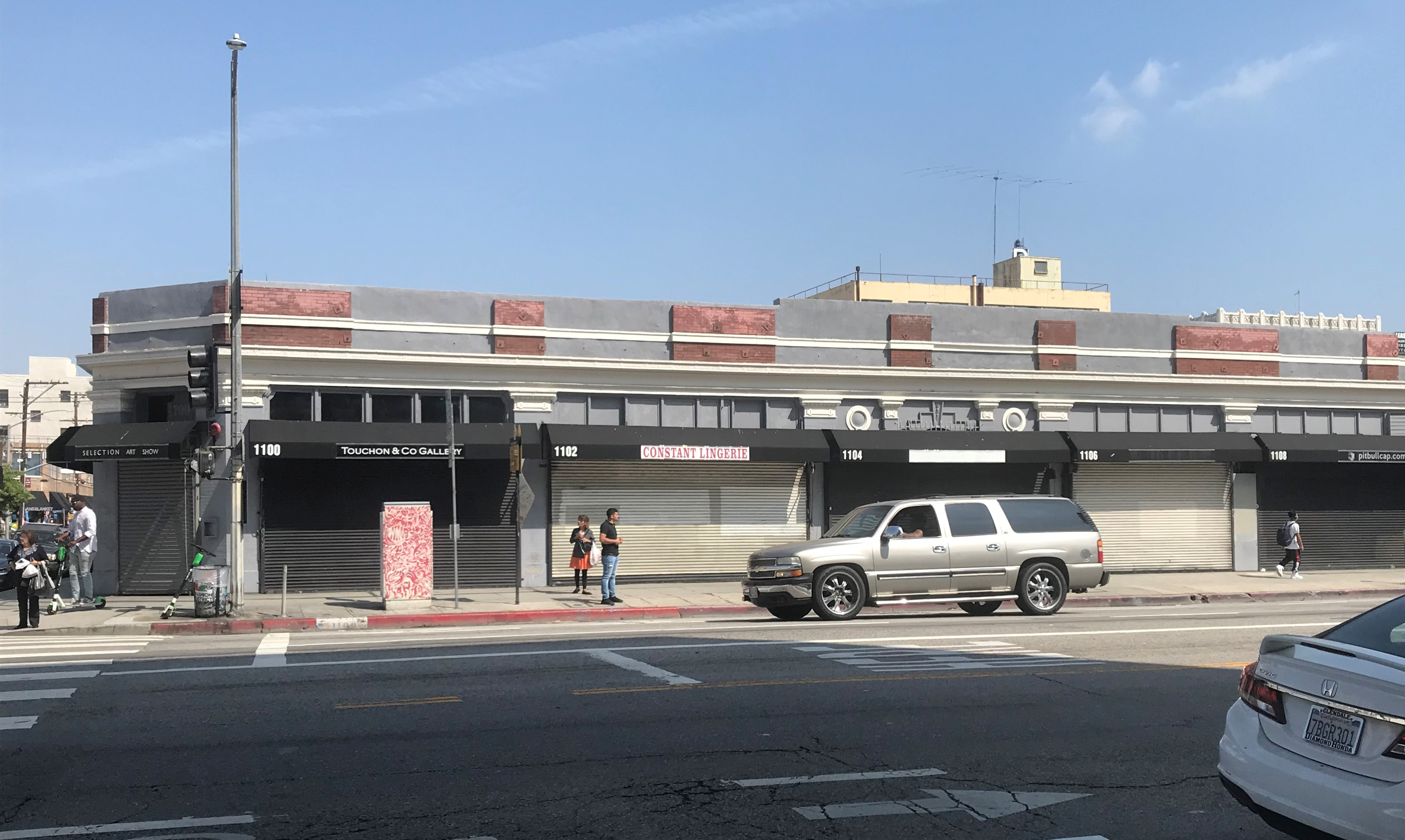 The exterior of Larry & Balki's apartment building as shown on the first two seasons of the TV series Perfect Strangers, after the top three floors were removed. The building is located at 1100 South Main Street in downtown Los Angeles, CA. Photo taken on June 15, 2019.